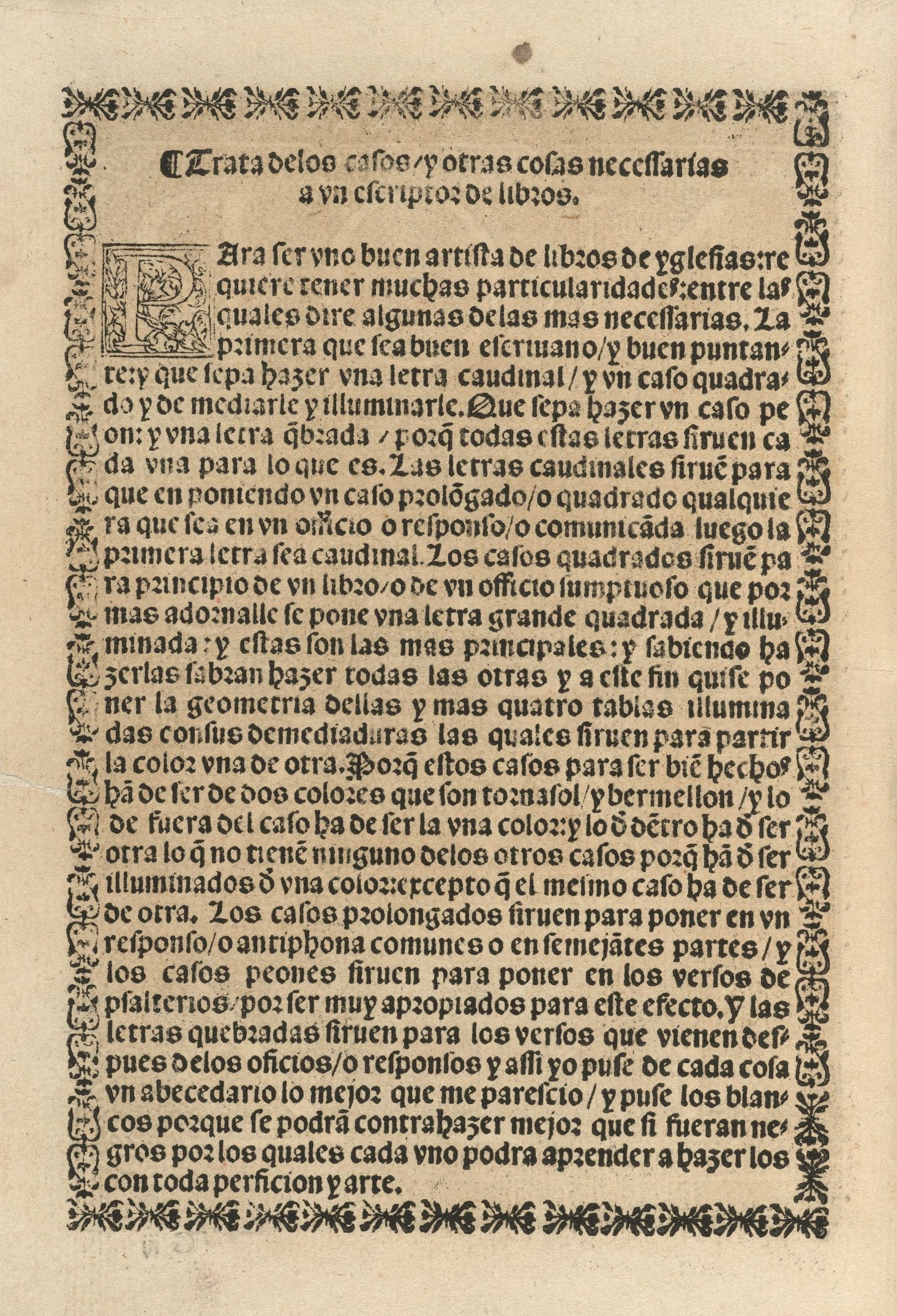 Page from Recopilacion subtilissima, intitulada, Orthographia pratica, 1548, by Juan de Iciar (b. 1523?).TypW 560.48.460, Houghton Library, Harvard University